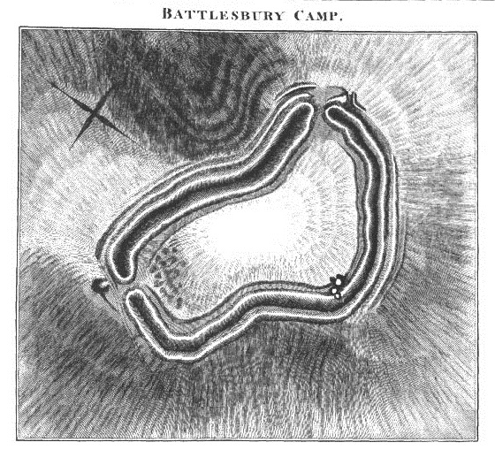 pencil sketch of battlesbury camp hillfort, wiltshire